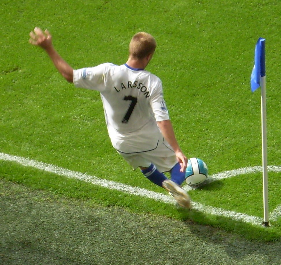 Sebastian Larsson taking a corner for Birmingham City F.C. against Chelsea F.C. at Stamford Bridge on 2007-08-12